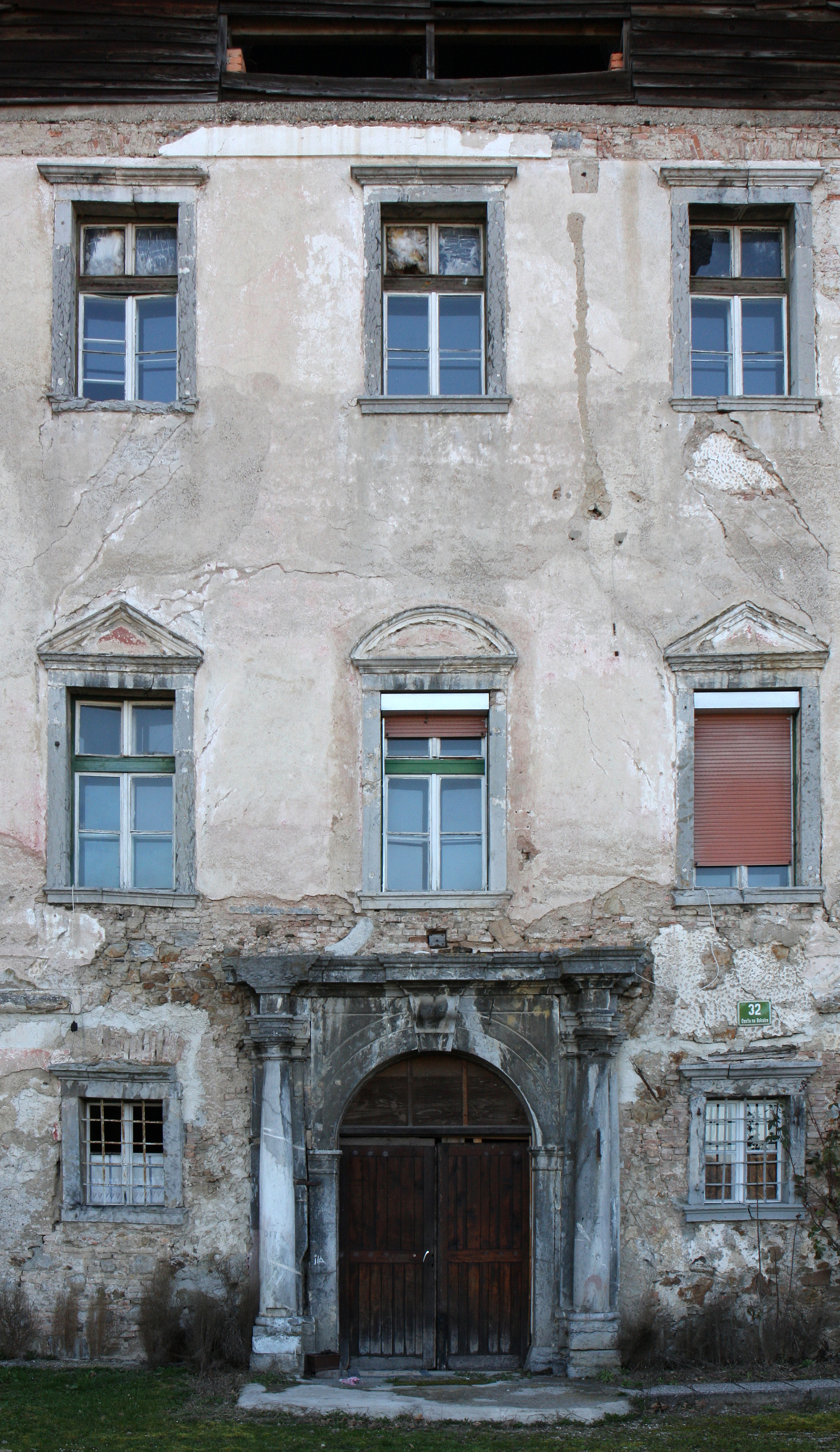 Main portal of Bokalce Castle, Ljubljana, Slovenia